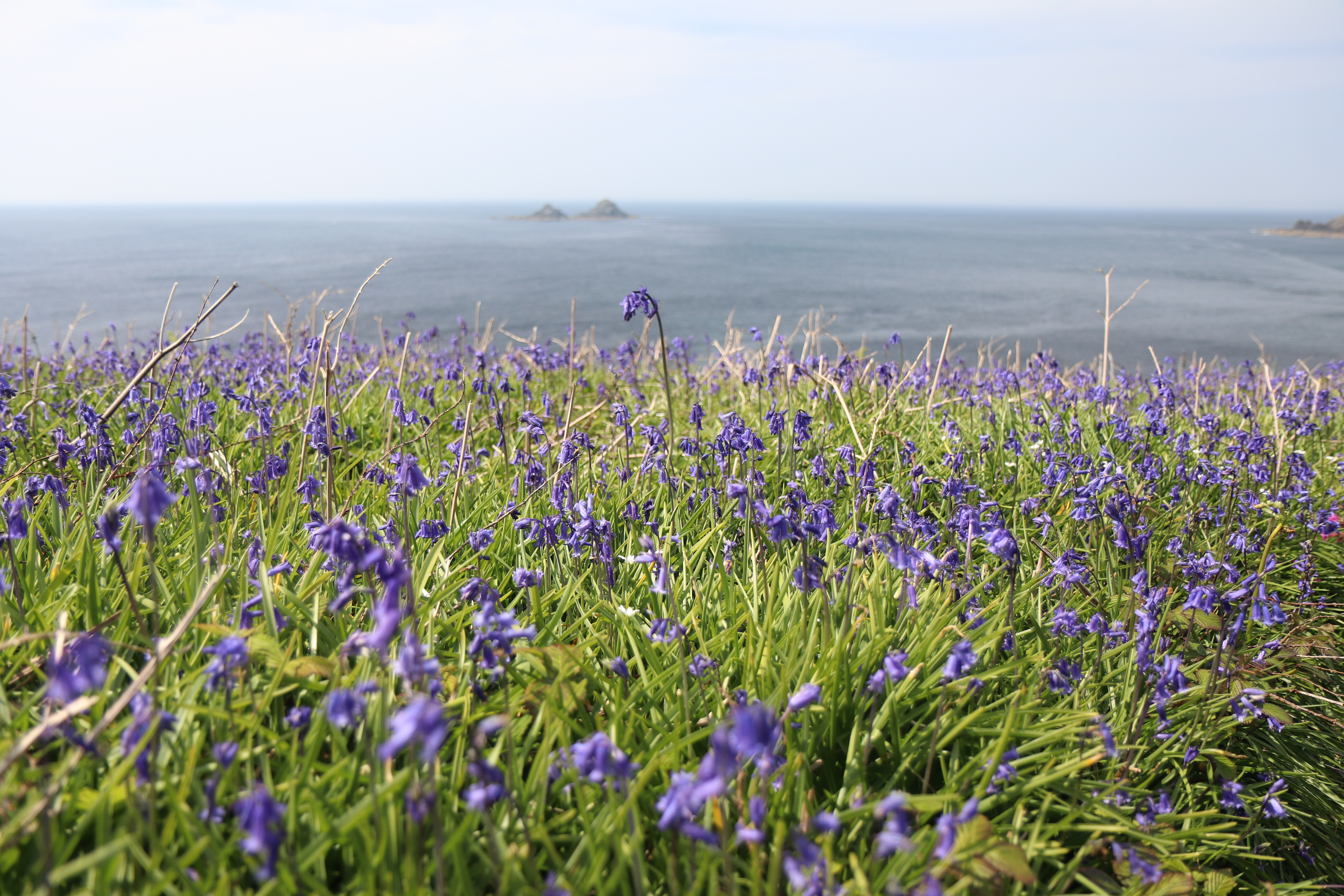 Bluebells on the Cornish Coast line This photo was taken by Tom Corser and is © Tom Corser 2020. This photo may be reproduced under the terms of the Creative Commons Attribution-ShareAlike 3.0 Unported Licence [1] (unless otherwise stated). Please credit this photo Tom Corser If using this photo, make sure you properly credit and specify the licence that this photo is licensed under. (E.g. "Photo by Tom Corser Licensed under Creative Commons Attribution-ShareAlike 3.0 Unported Licence: If you would like to use this photo under a different license, please contact me via or . Attribution: Tom Corser